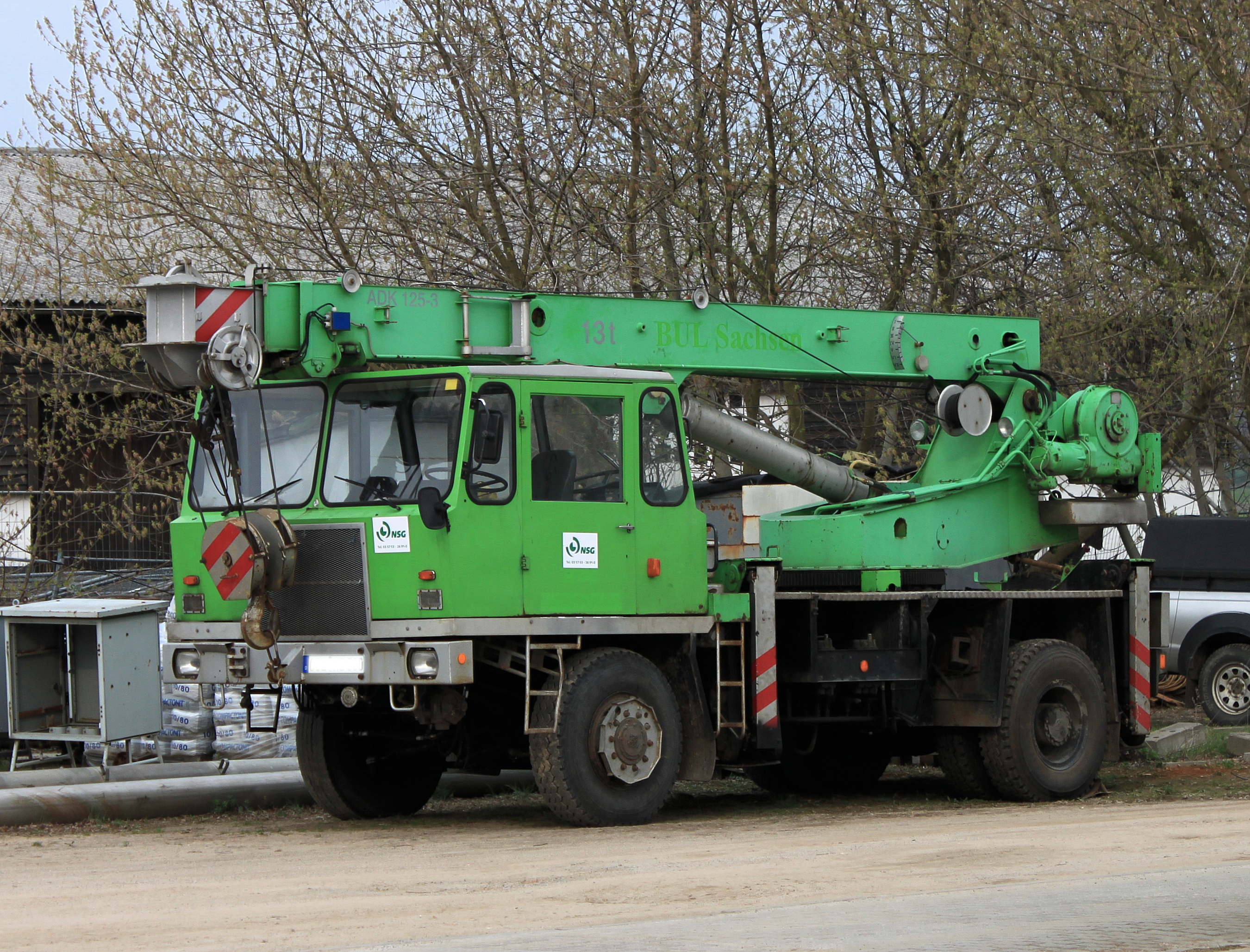 ADK 125-3